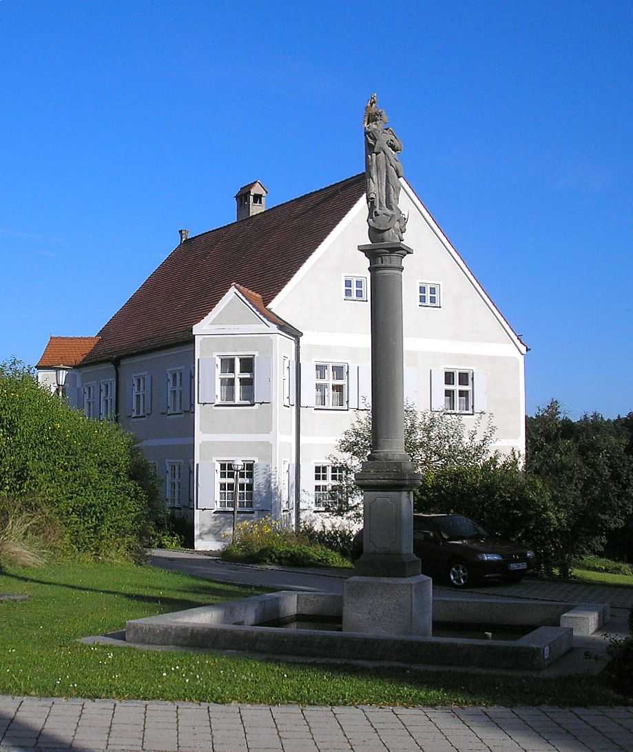 Parish church St. Ulrich (Eresing, Landkreis Landsberg am Lech, Upper Bavaria, Germany). The baroque rectory (1699) with the marian column